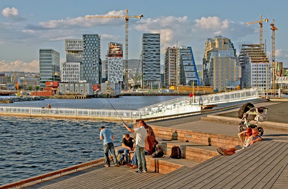 The distinct skyline of Bjørvika is seen from the new residential neighbourhood in the former harbour district